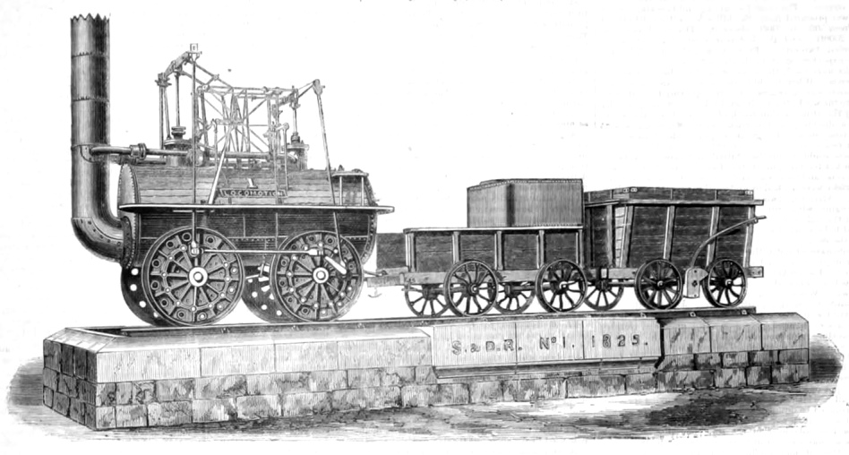 Locomotion No. 1 opened the Stockton and Darlington Railway in 1875.